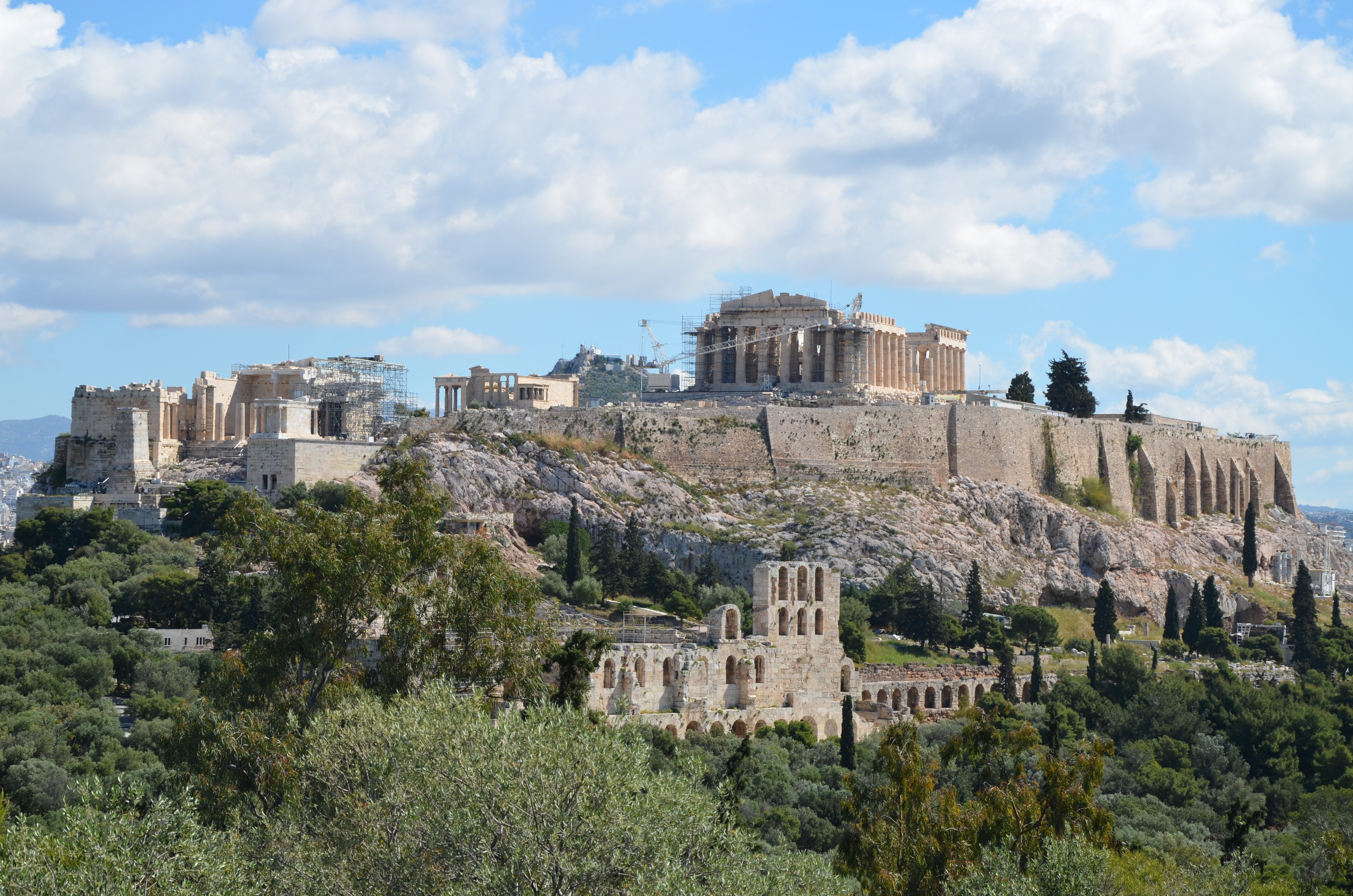 The Acropolis of Athens viewed from the Hill of the Muses